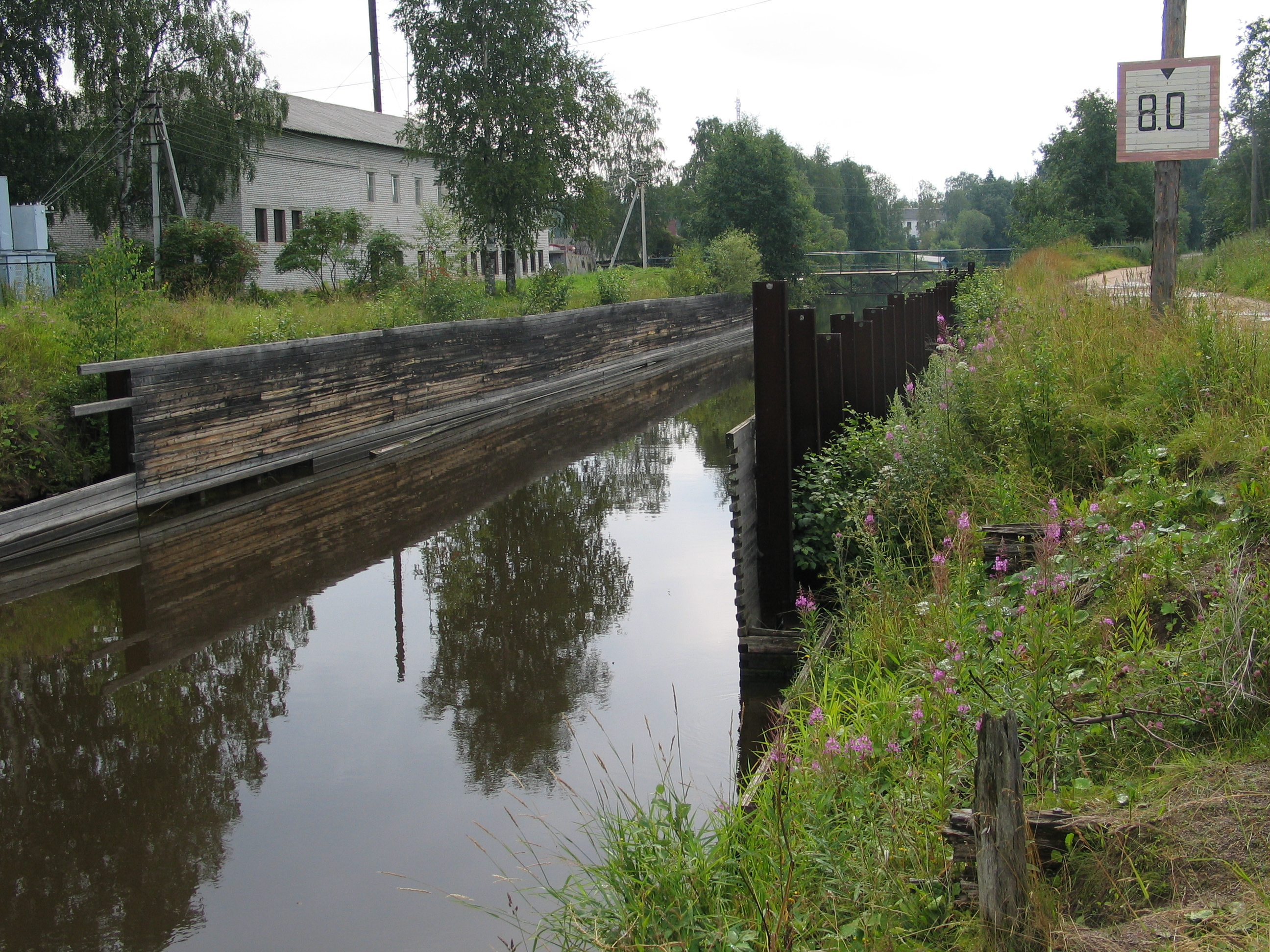 Russia, Vologda Oblast, Vytegra. Old lock, Vytegra.